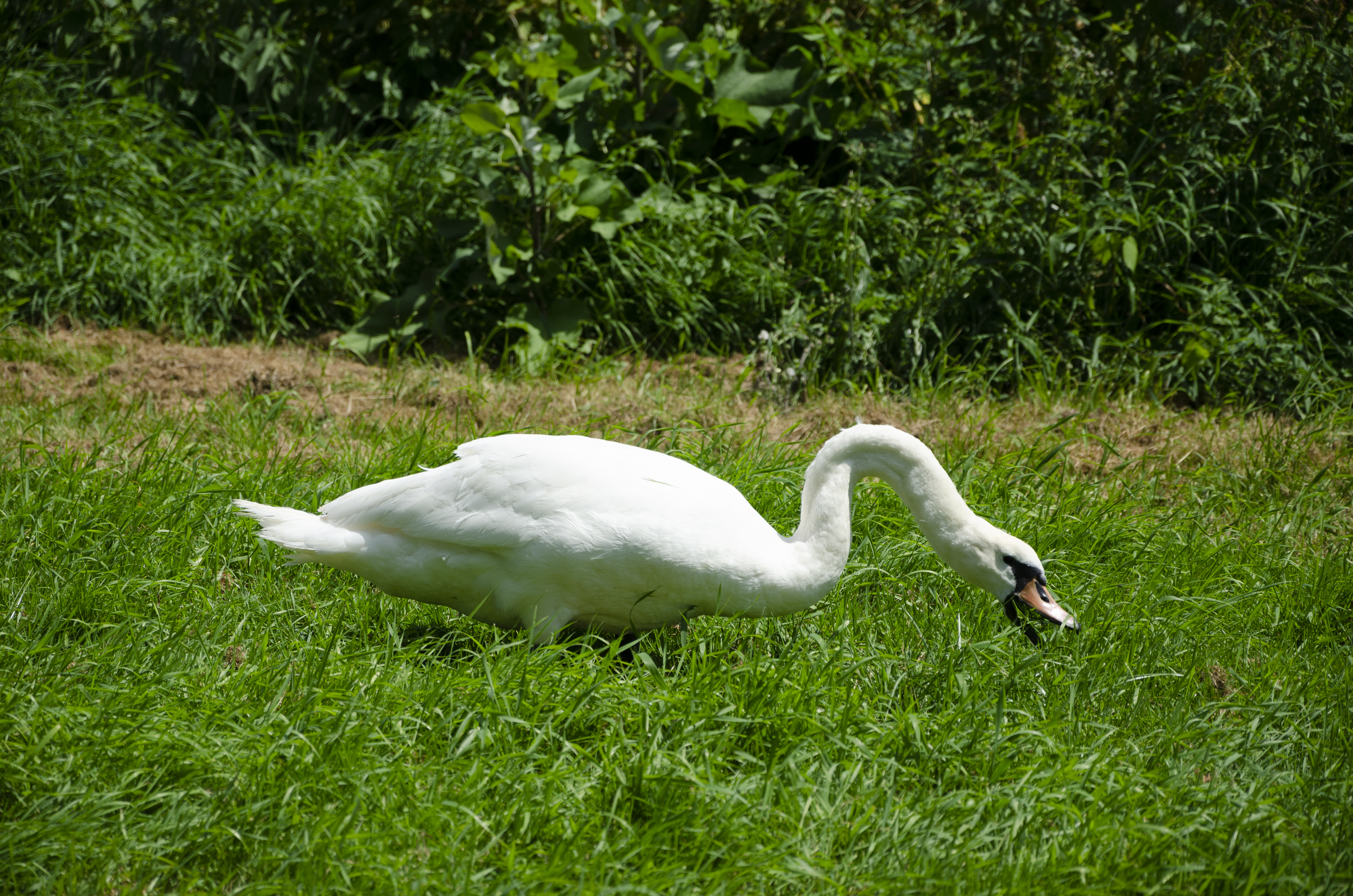 Mute swan (Cygnus olor) foraging for grass.